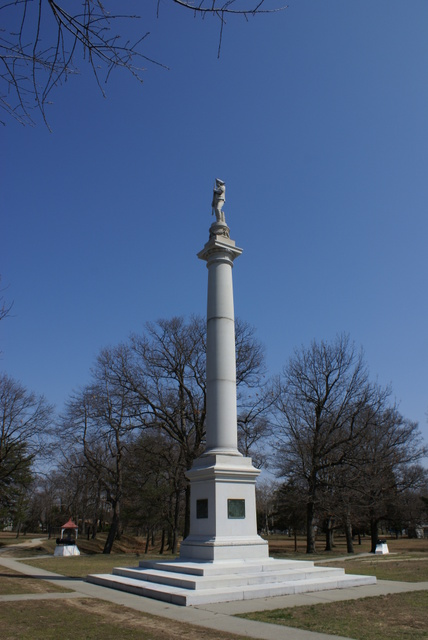 Fort Mercer Monument Fort Mercer, Red Bank Park, National Park, New Jersey, USA